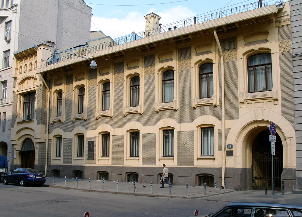 24 Povarskaya Street, Moscow. In 1920-1940, it housed Embassy of Lithuania